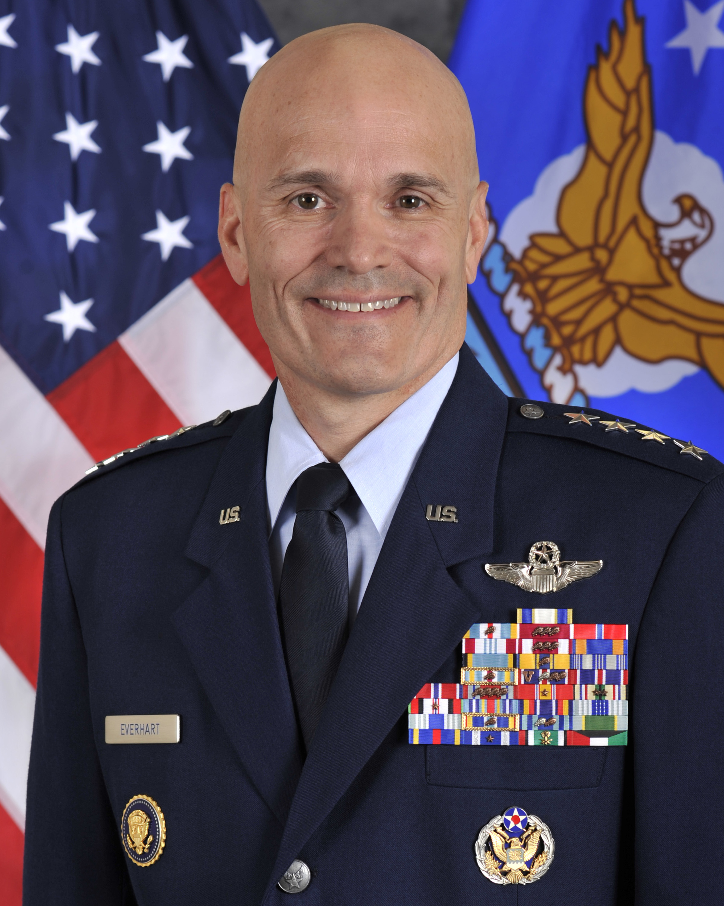 Gen. Carlton D. Everhart is Commander, Air Mobility Command